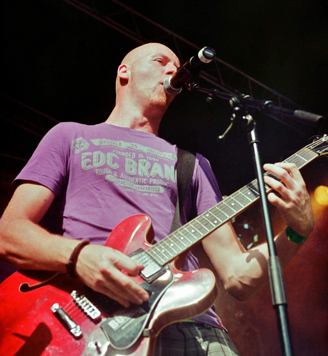 Didi, singer of german rock band BOOL, Park Kult Tour Festival 2010.